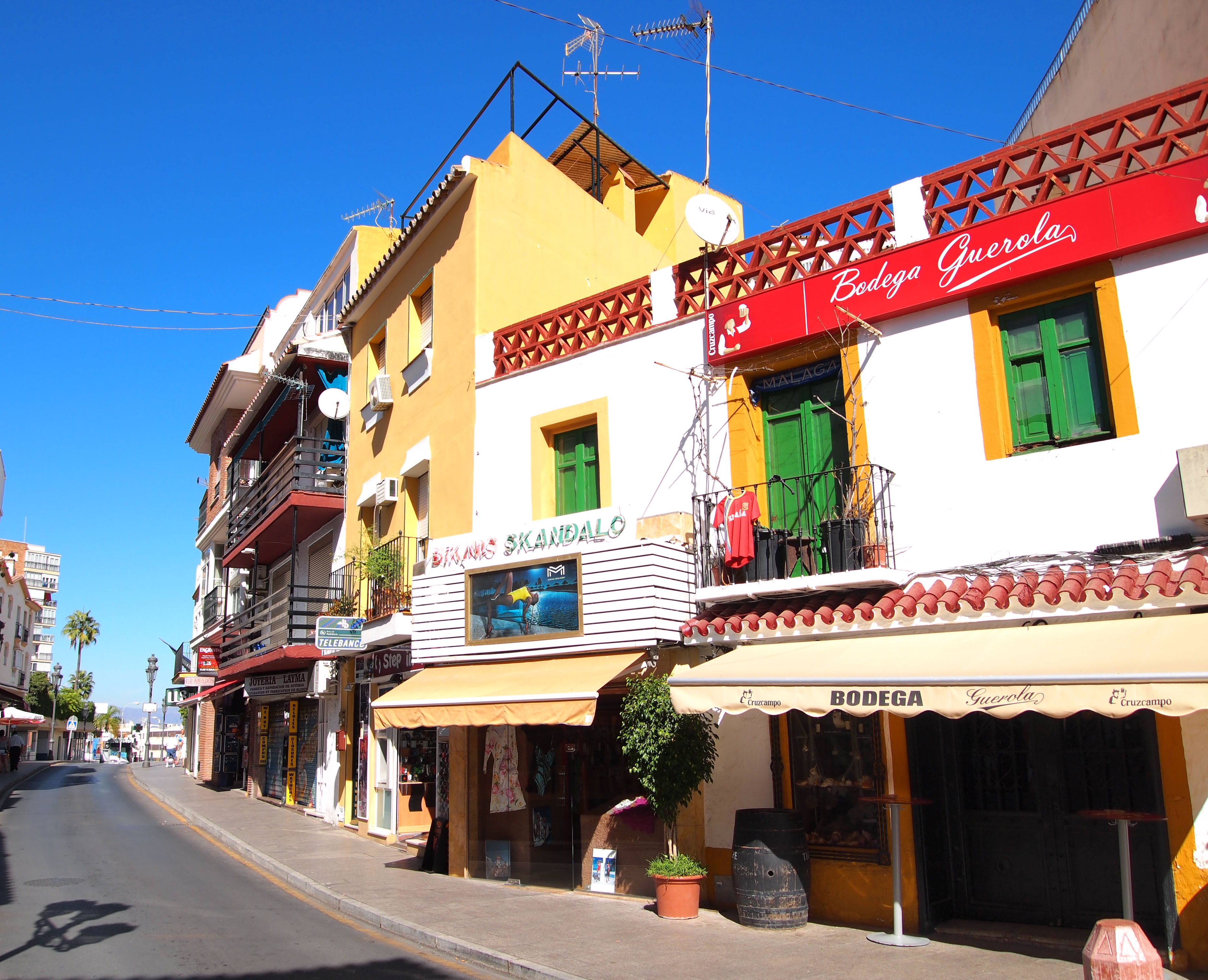 Colorful buildings on a street in Torremolinos. This photograph was taken with an Olympus E-PL1